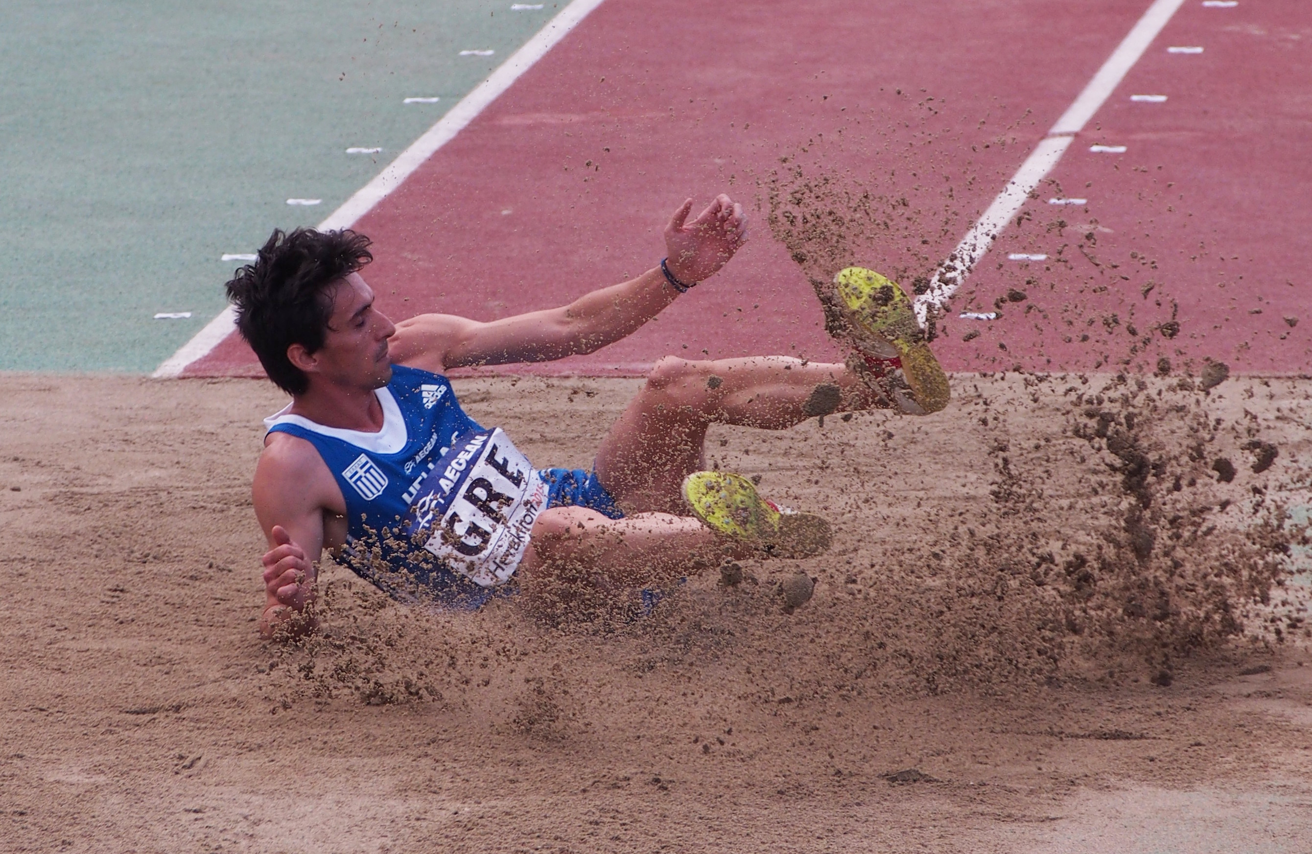 Dimitris Tsiamis, Greek triple jumper, landing, during the 2015 European Team Championships First League.